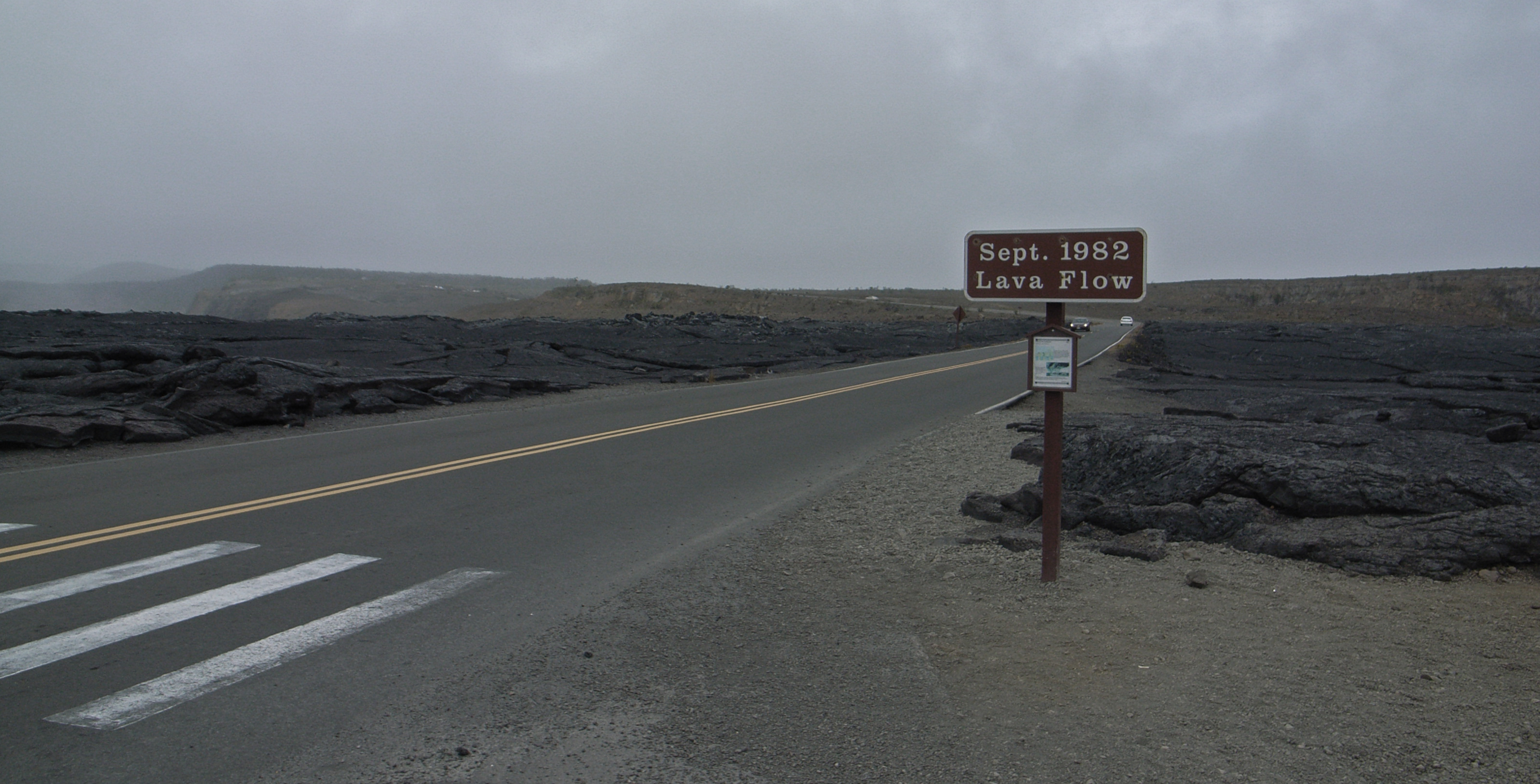 Crater Rim Road in the floor of the Kilauea Caldera, Kilauea, Hawaii, United States